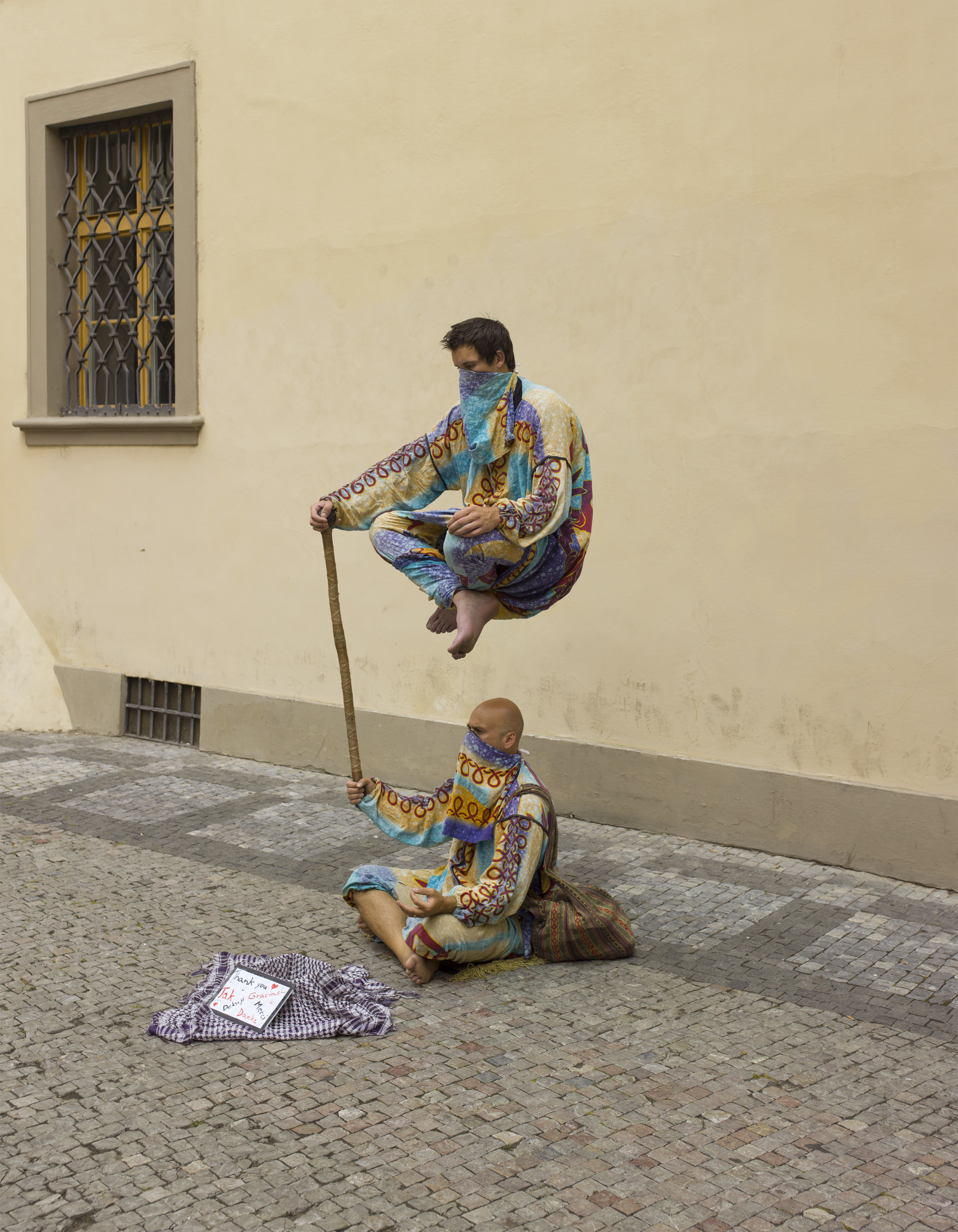 Street performers levitating in Prague.